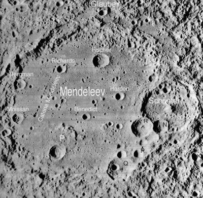 LOI-116-M